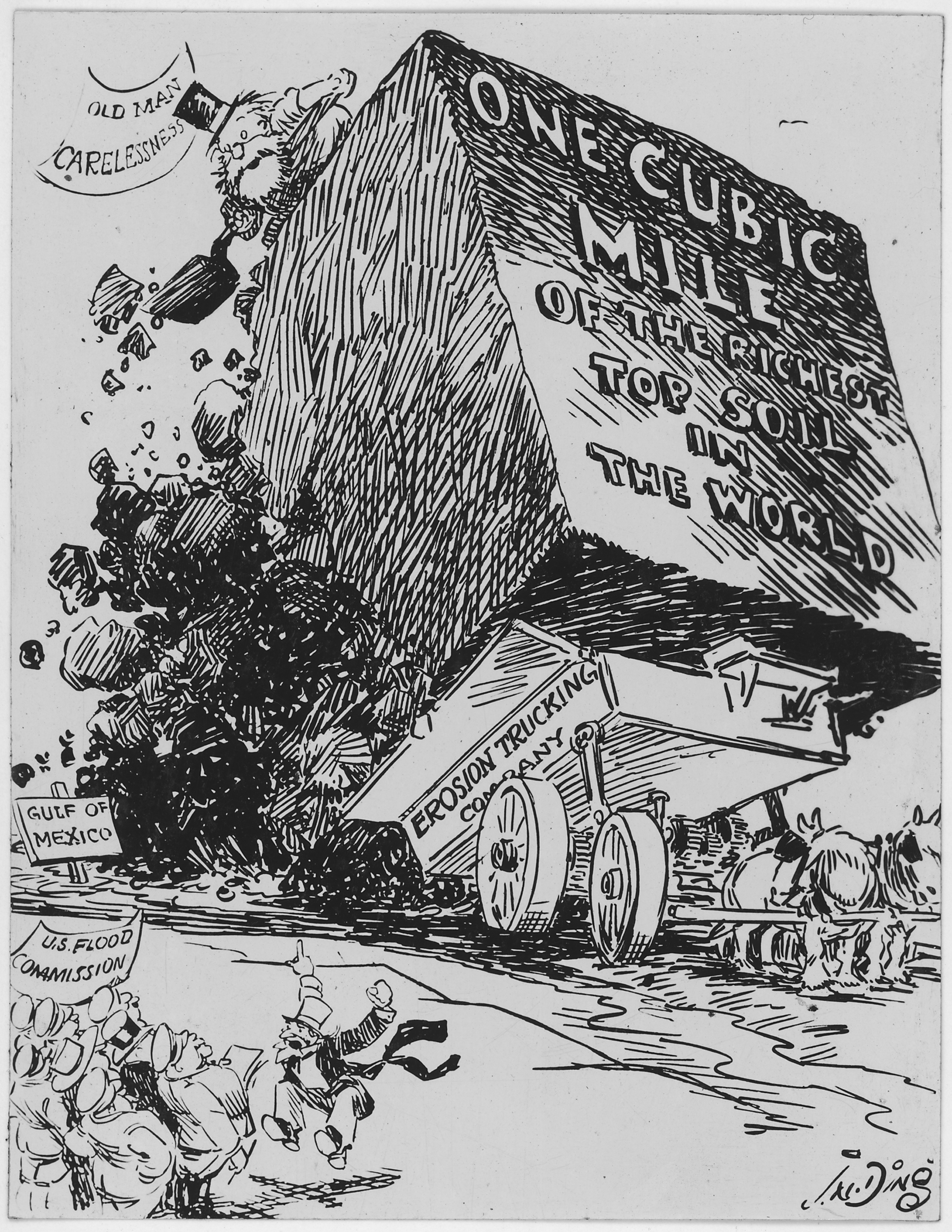 A horse-drawn wagon dumps a large cube of soil into the Mississippi River. The cube is labeled "One cubic mile of the richest top soil in the world." On top of the soil is a top-hatted and bearded man with a shovel, labeled "Old Man Carelessness." A sign on the left shows the soil is on its way to the Gulf of Mexico. Also on the left are a group of men representing the U.S. Flood Commission, witnessing the dumping while another top-hatted and bearded old man is trying to get the group's attention by jumping up and down and pointing to the dump truck.